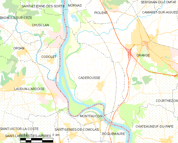 Map of French municipality Caderousse